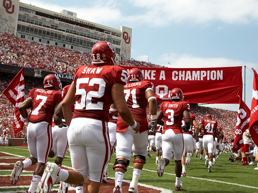 The Oklahoma Sooners football team enters the field to take on the Utah State Aggies.